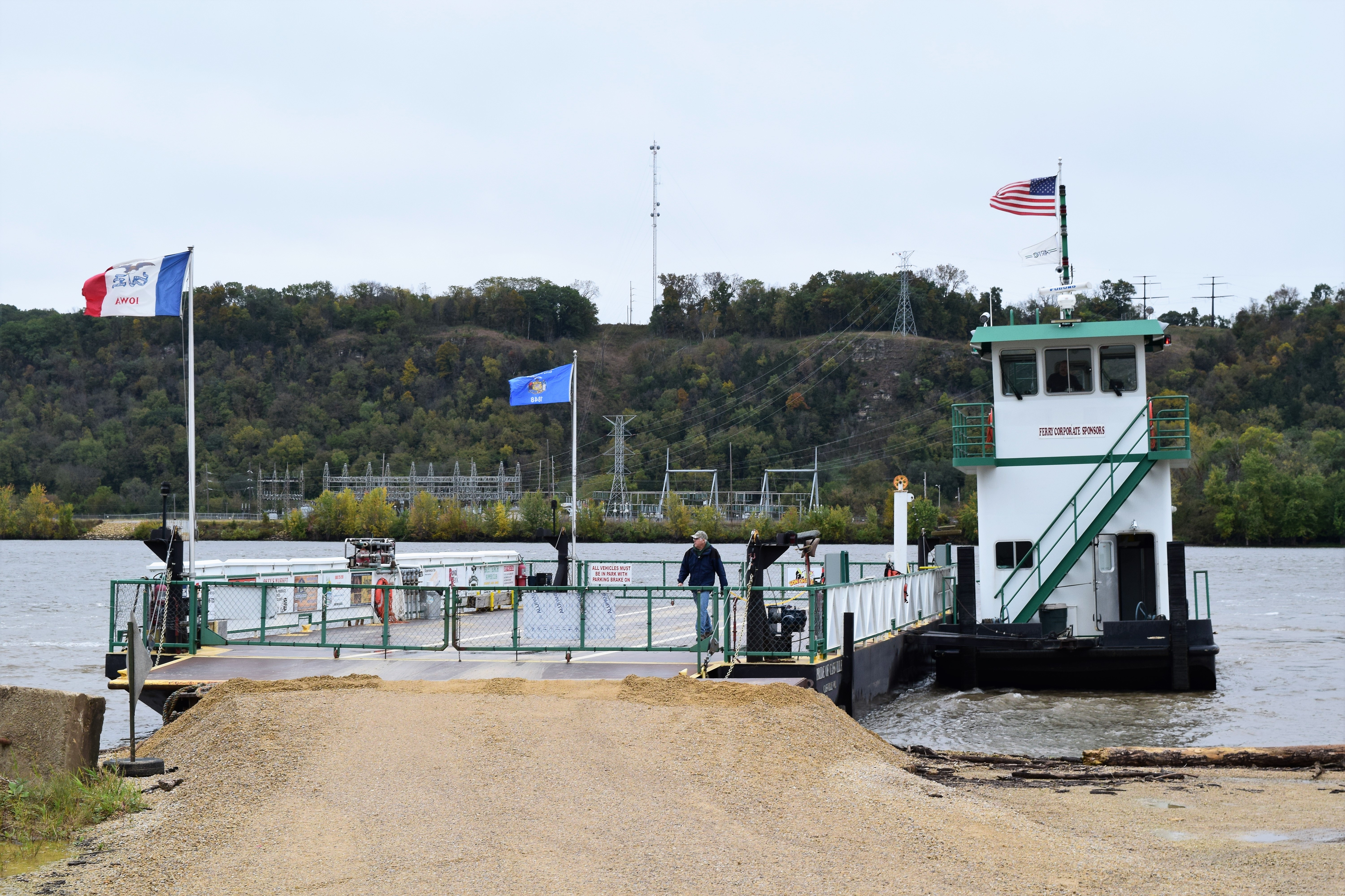 The Cassville Ferry, which carries cars and passengers across the Mississippi River between Cassville, Wisconsin and rural Clayton County, Iowa. The ferry is pictured on the Iowa side of the river.